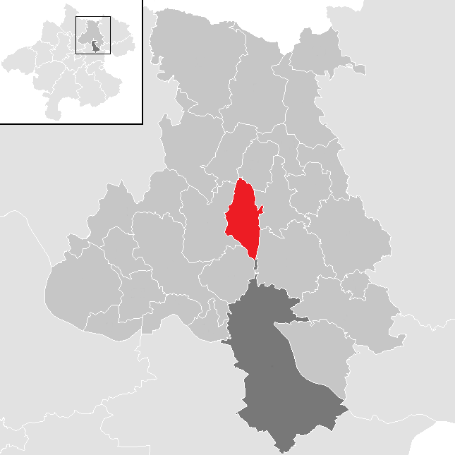 District Urfahr-Umgebung